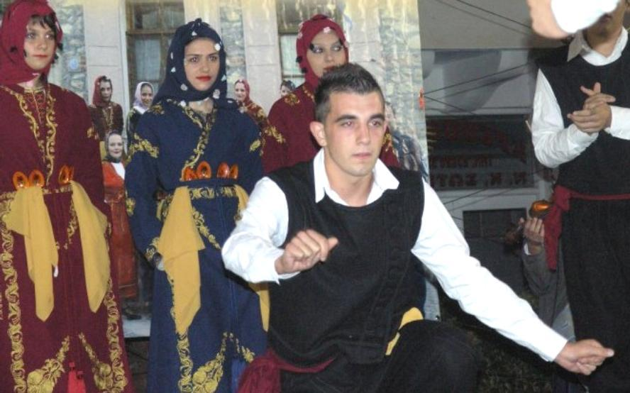 Cappadocian Greeks doing a traditional dance in Thessaloniki, Greece